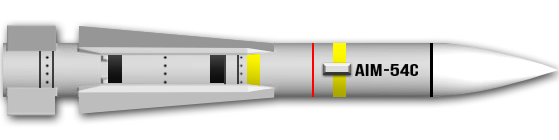 Render of the Side-View of Hughes AIM-54 C variant